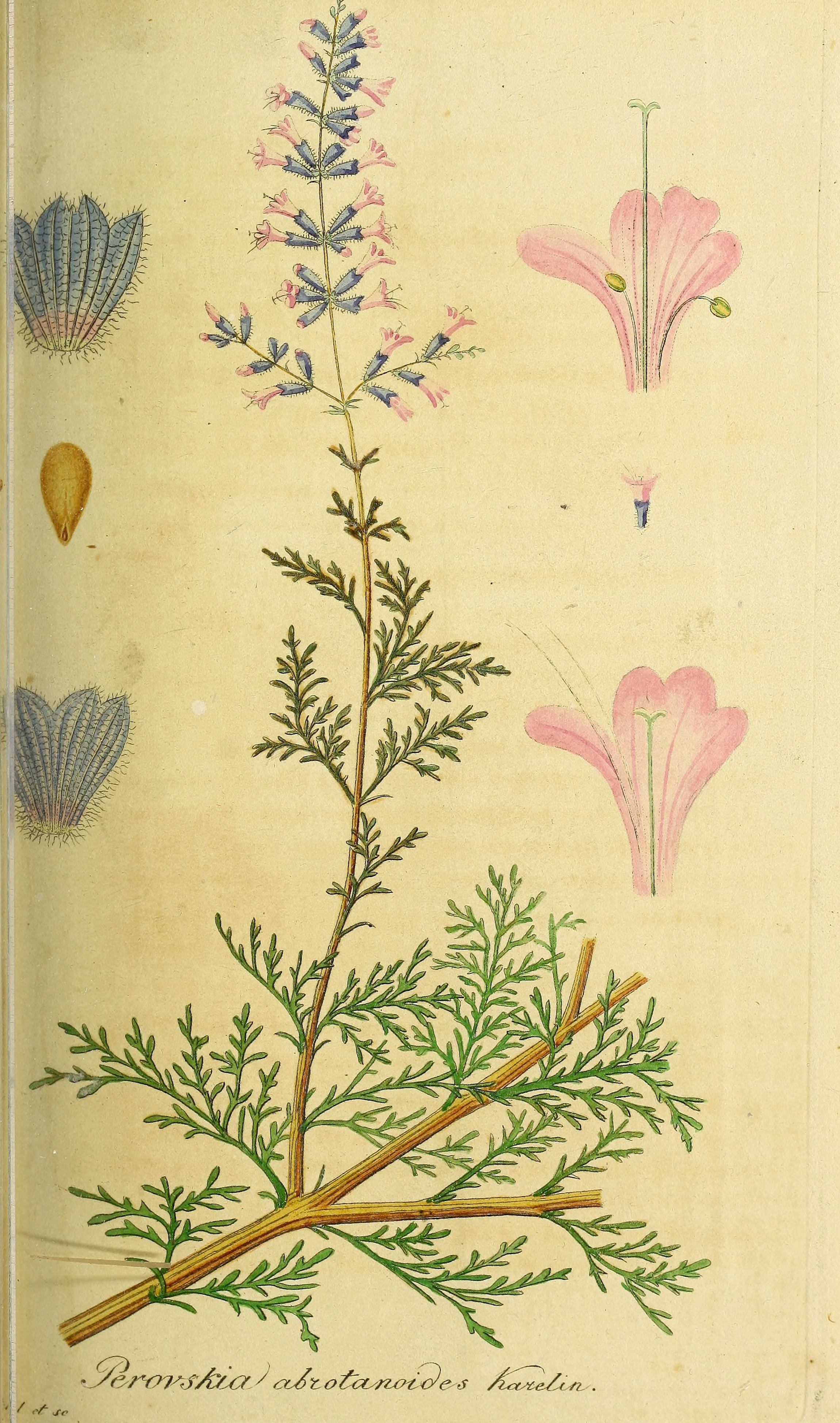 Title: Bulletin de la Société Impériale des Naturalistes de Moscou Year: 1841 (1840s) Authors: Moskovskoe obshchestvo liubitelei prirody Subjects: Publisher: Text Appearing Before Image: par Adam; avec les suites ac-compagnées de 300 vignettes représentant plus de 800 ani-maux, ïom. 1—6 et Atlas colorié Tom. 1 et 2. Paris, 1835.36. De la part de Mr. Golovine. 23. tesson, P. Complémens de Bufîbn. 2U édition. 1—2. Paris ,1838. et Atlas, la làre et 2!e partie avec 120 planches colo-riées. De la part de Mr. Golovine. £4. Bibliothèque zoologique. Vol. 1—4. Paris, 1834—37. contenant: 1. Les papillons dEurope par Lucas avec 79 planchescoloriées. 2. Les papillons exotiques par Lucas avec 80 planchescolor. 3. Les oiseaux exotiques par Lemaire avec 80 planchescolor. 4. Les oiseaux dEurope par Lemaire avec 80 planchescolor. De la part de Mr. Golovine.- 25. Chevallier ; Charles. 300 animalcules infusoires dessinés àlaide du Microscope- Paris, 1839. De la part de Mr. Golovine. 26. Geoffroy St. llilaire. Cours de lhistoire naturelles desmammifères. Paris, 1829. De la part de Mr. Golovine. D. Membre admis dans la Société. i. Mr. Basile de Golovine à Moscou. Text Appearing After Image: '